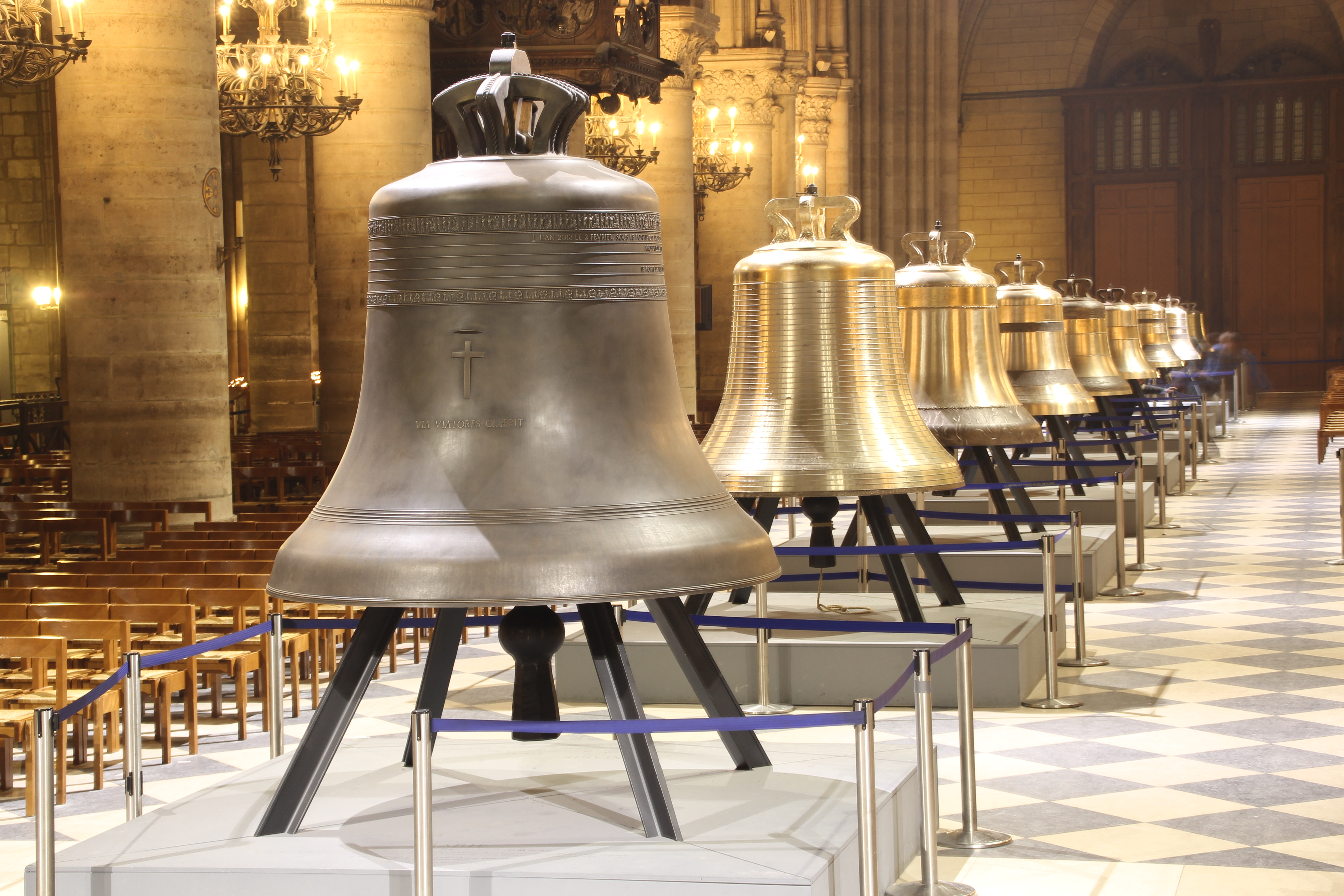 Visit of the cathedral during the exhibition of the new bells in Notre-Dame de Paris, France in 2013.